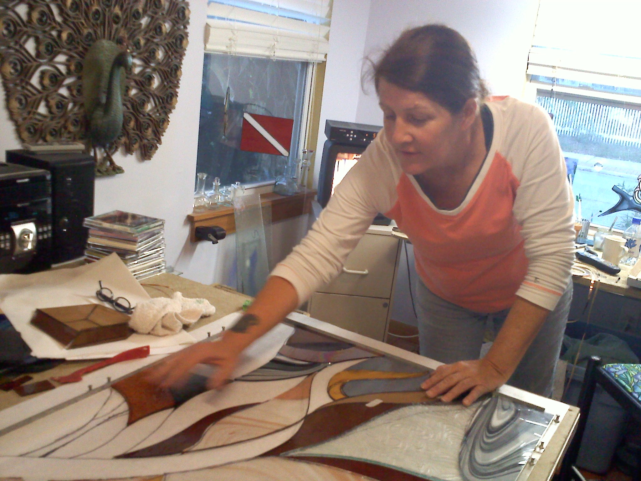 artist at work in the Village of the Arts